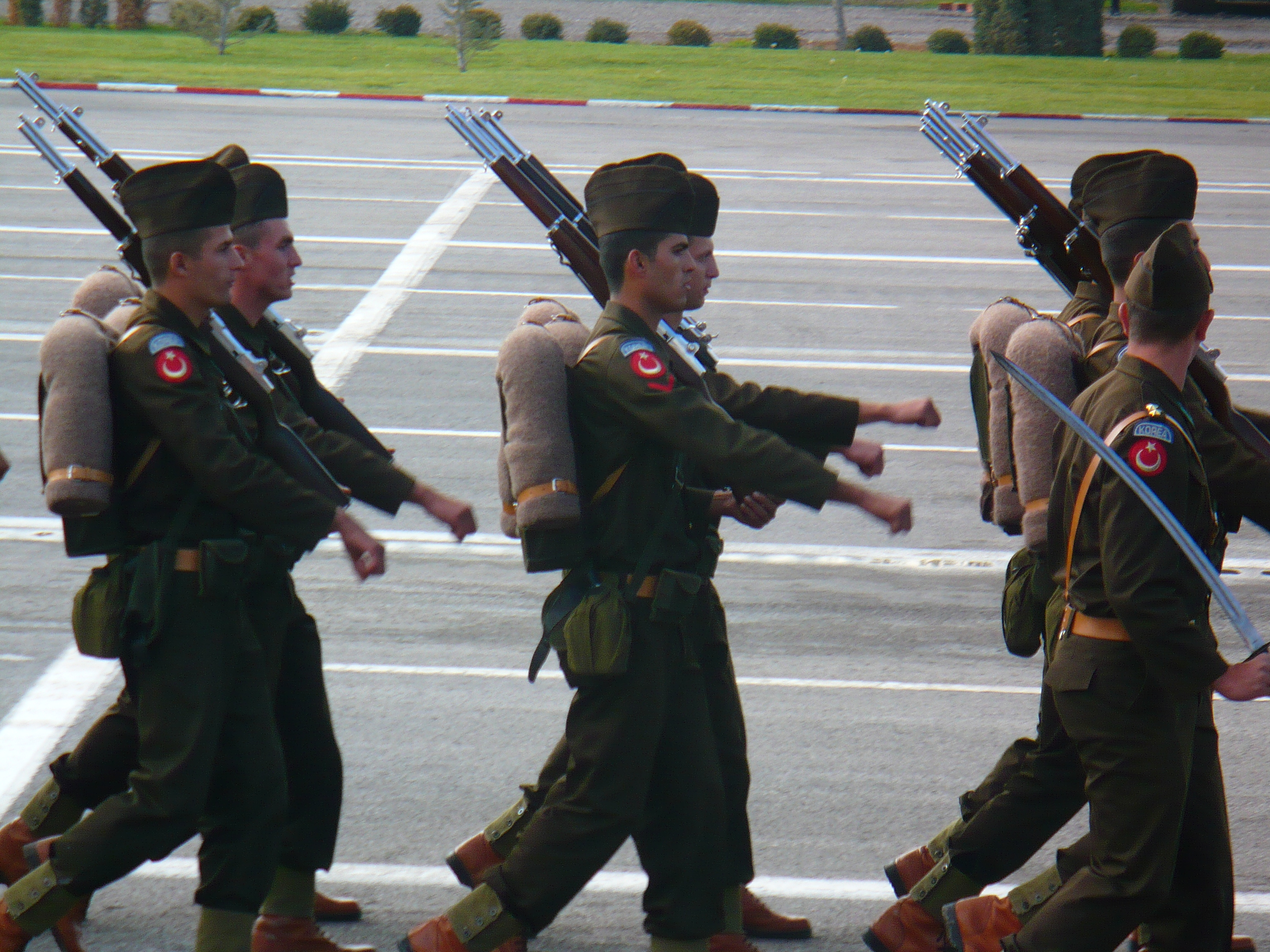 Parade of Turkish soldiers wearing uniforms of the Turkish Brigade, at the ceremony of the October 29 Republic Day